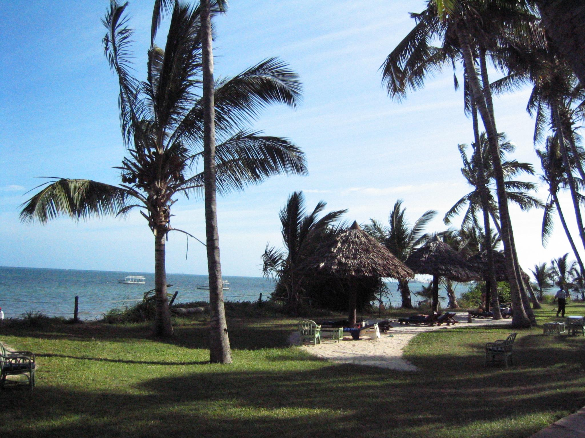 The grounds of the White Sands hotel in Mombasa, Kenya. The Indian Ocean is visible in the background.